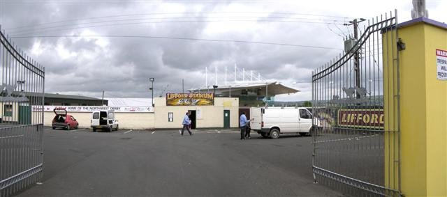 Lifford Greyhound Stadium. There is a long established tradition of greyhound racing here.